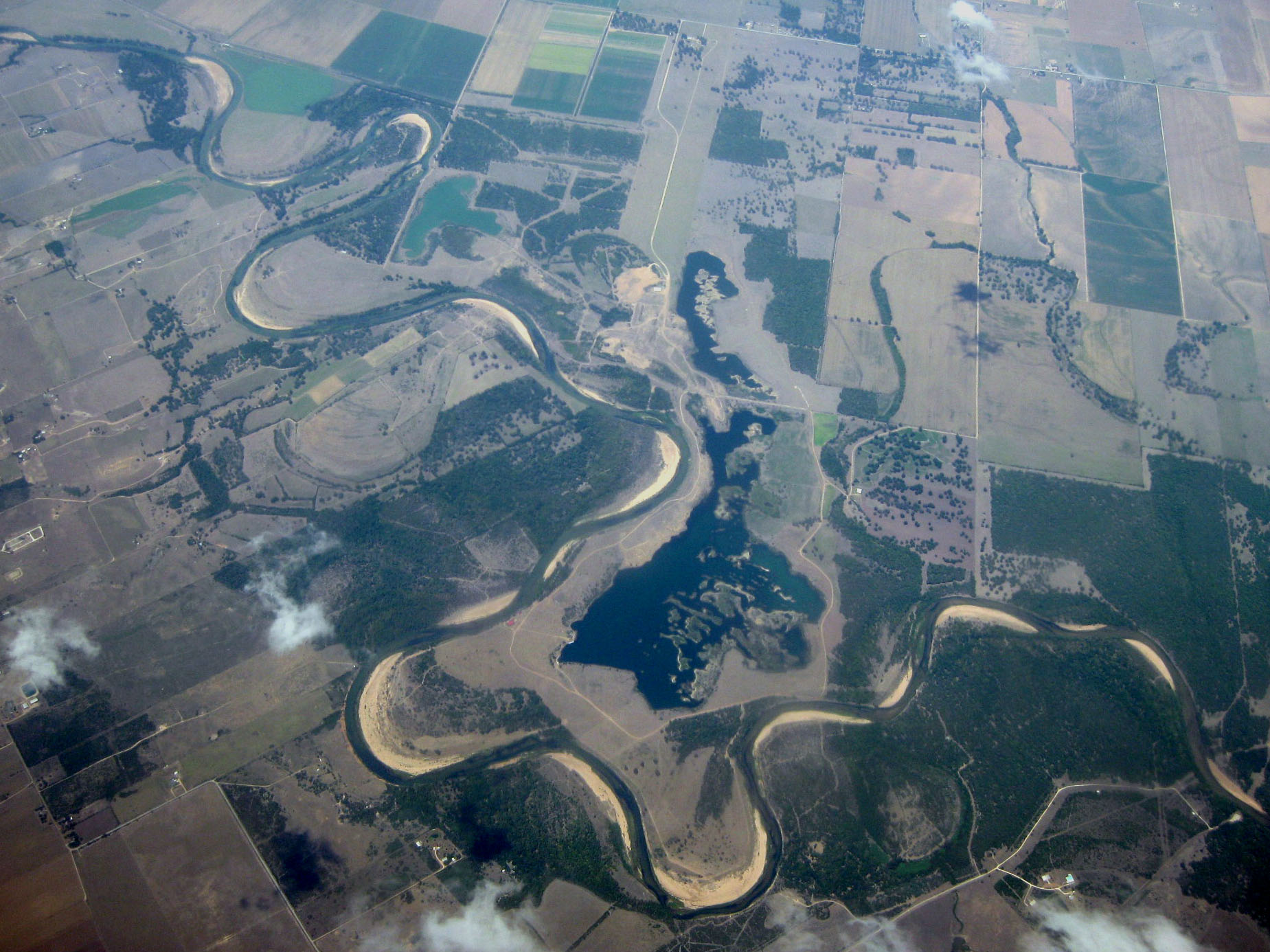 Oblique air photo of the Colorado River where it crosses from Colorado County, Texas into Wharton County, Texas near Nada. Prominent Point bars visible. Facing north on 2 August, 2011. Color/contrast enhanced in Photoshop.